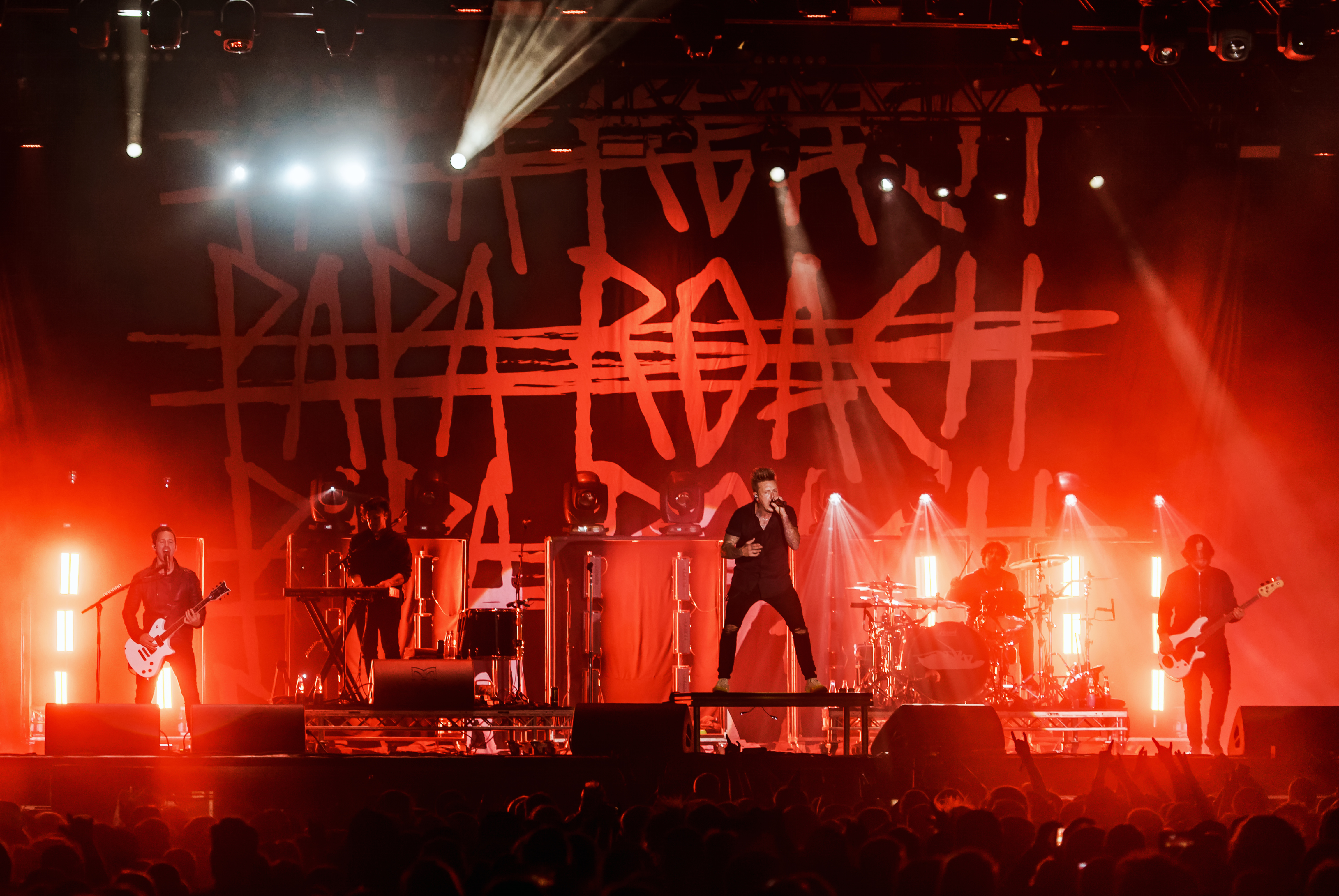 Papa Roach playing at Reload Festival 2018